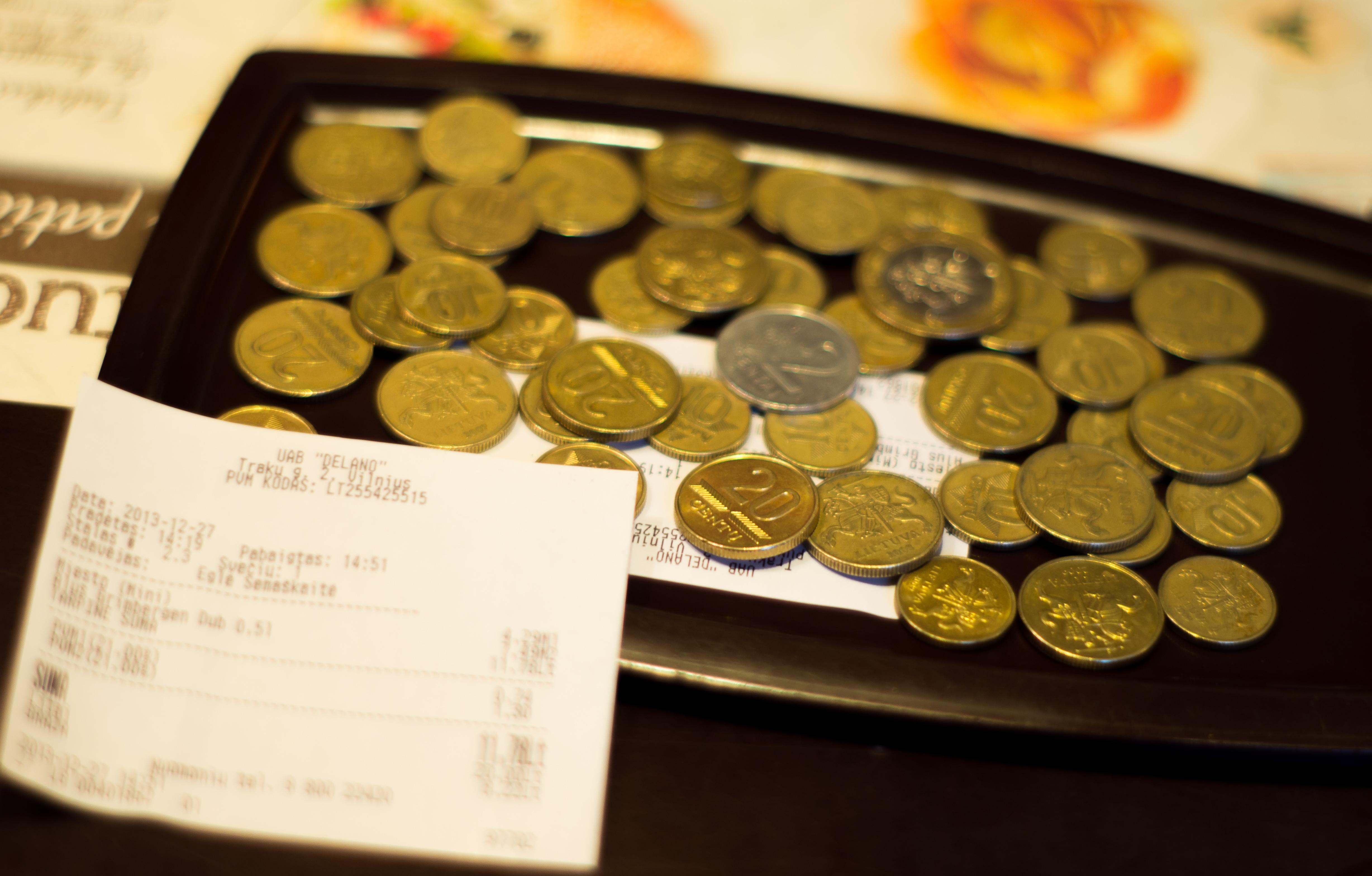 Some change in Lithuanian litas coins.